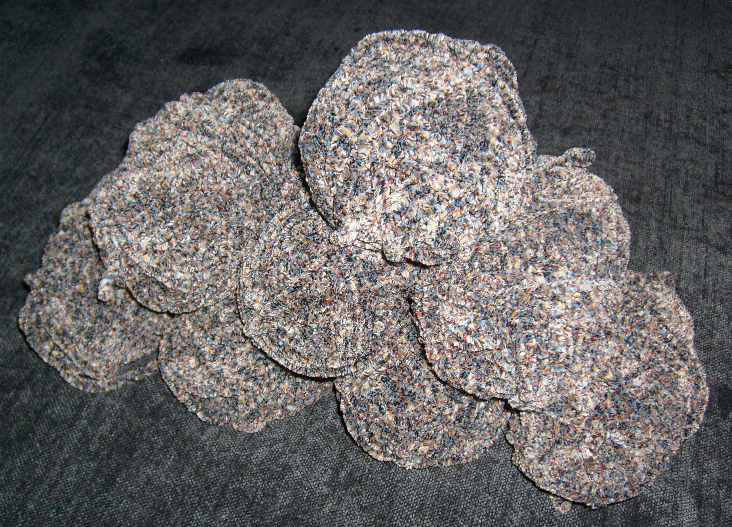 Yarn skeins from the same dye lot in sufficient quantity to make a single sweater. This image illustrates the concept of dye lot for knitting and crochet.